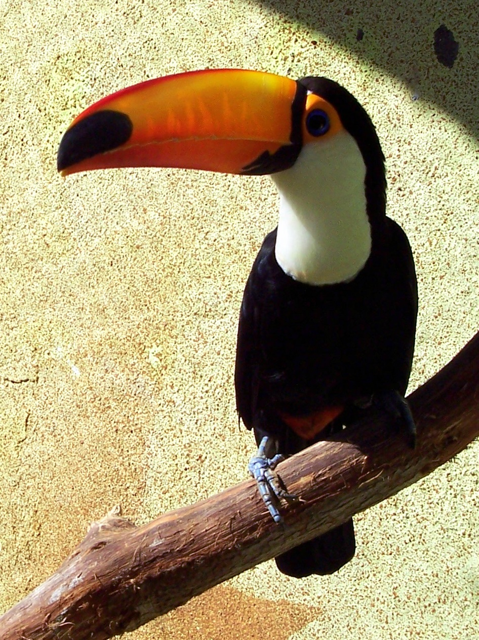 A Toco Toucan (Ramphastos toco) at Rancho Texas Park, Lanzarote